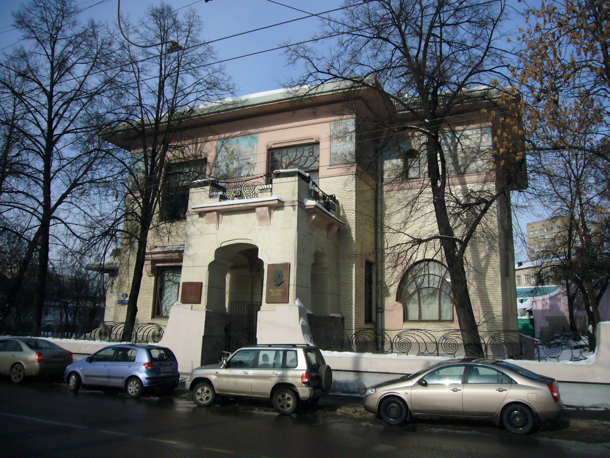 Building at 6 Malaya Nikitskaya Street (Moscow, Russia